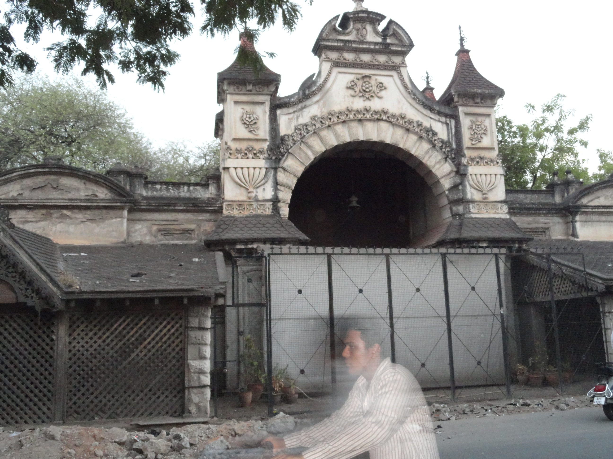 mahadwaaram of Kings Palace. kingkoti, Hyderabad